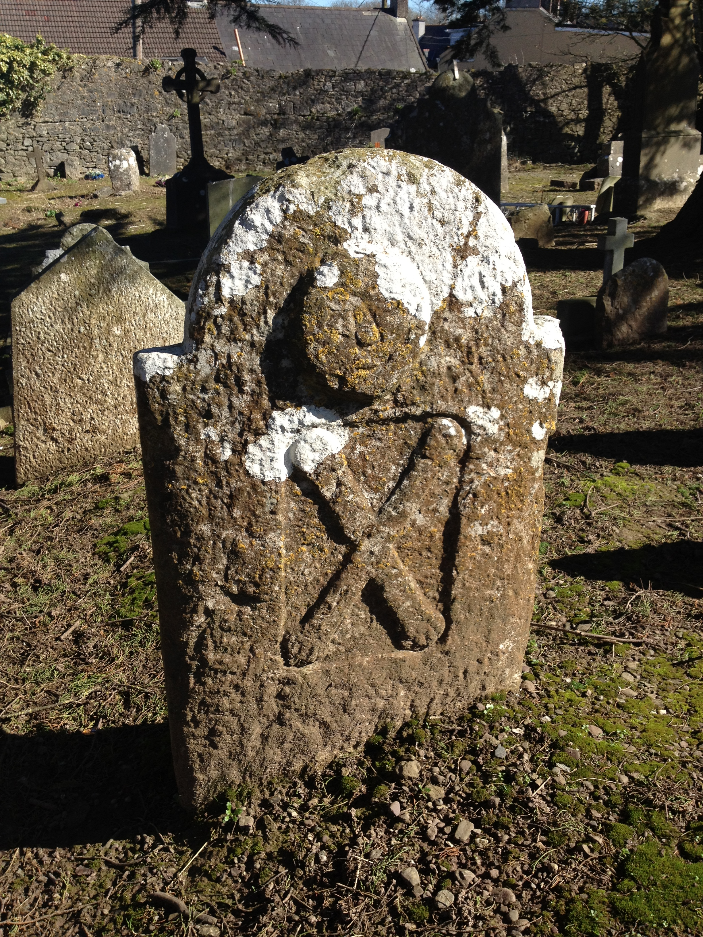 Grave(s) in Temple Hill graveyard, Ballintemple, Cork, Ireland. Gravestone with skull and cross-bones relief engraving (memento mori / "remember death")